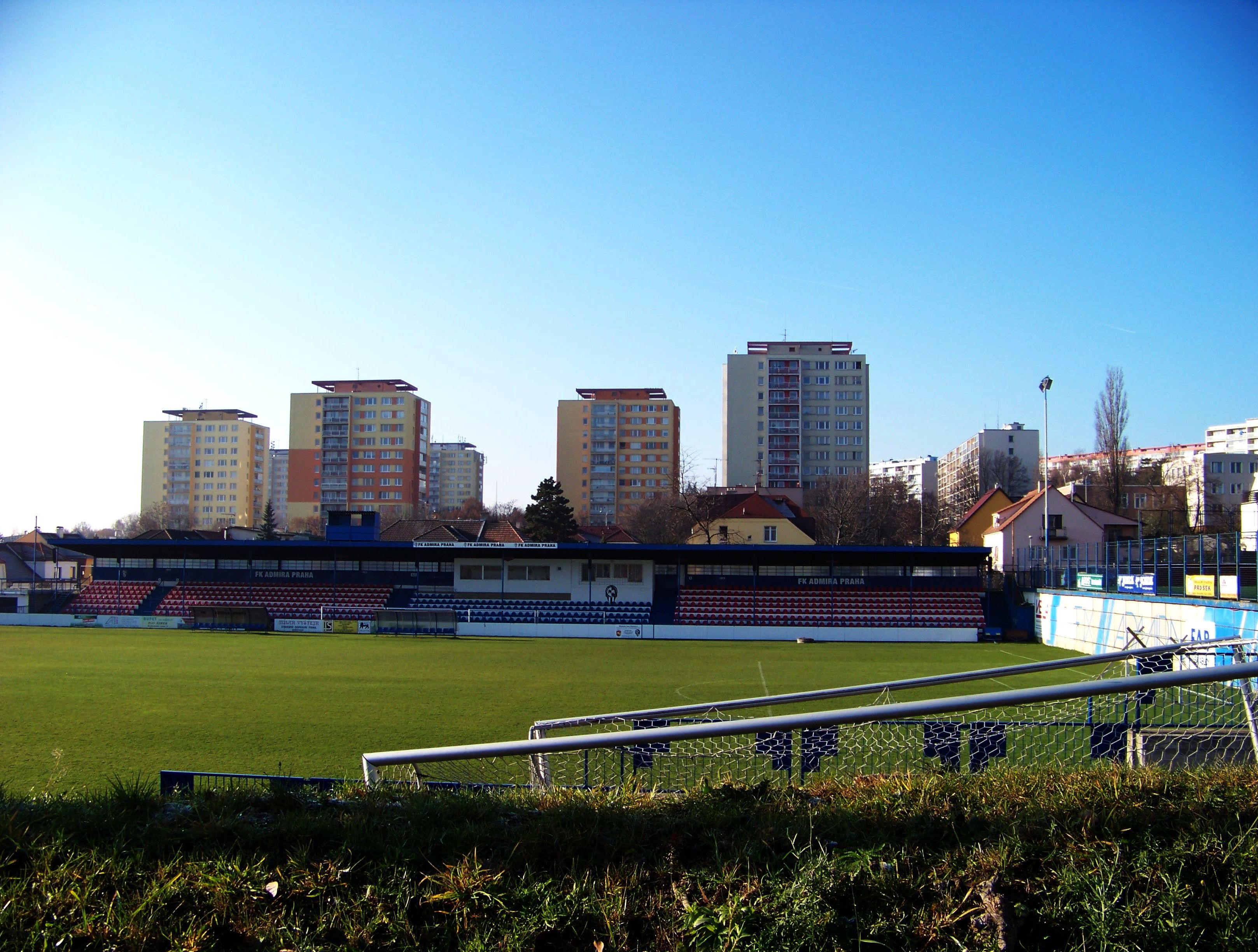 Prague-Kobylisy, the Czech Republic. A football field at Klapkova street, Kobylisy Housing Estate. - OpenStreetMap(Info)